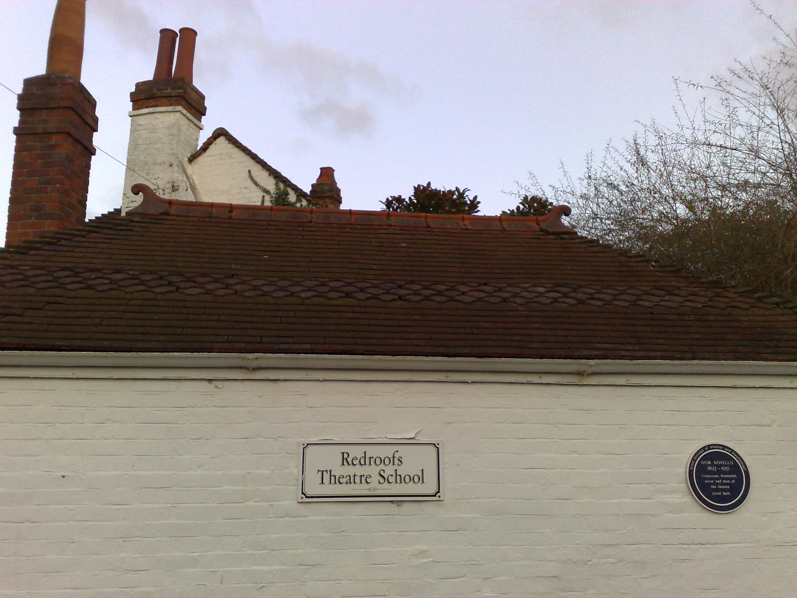 A view of Redroofs Theatre School